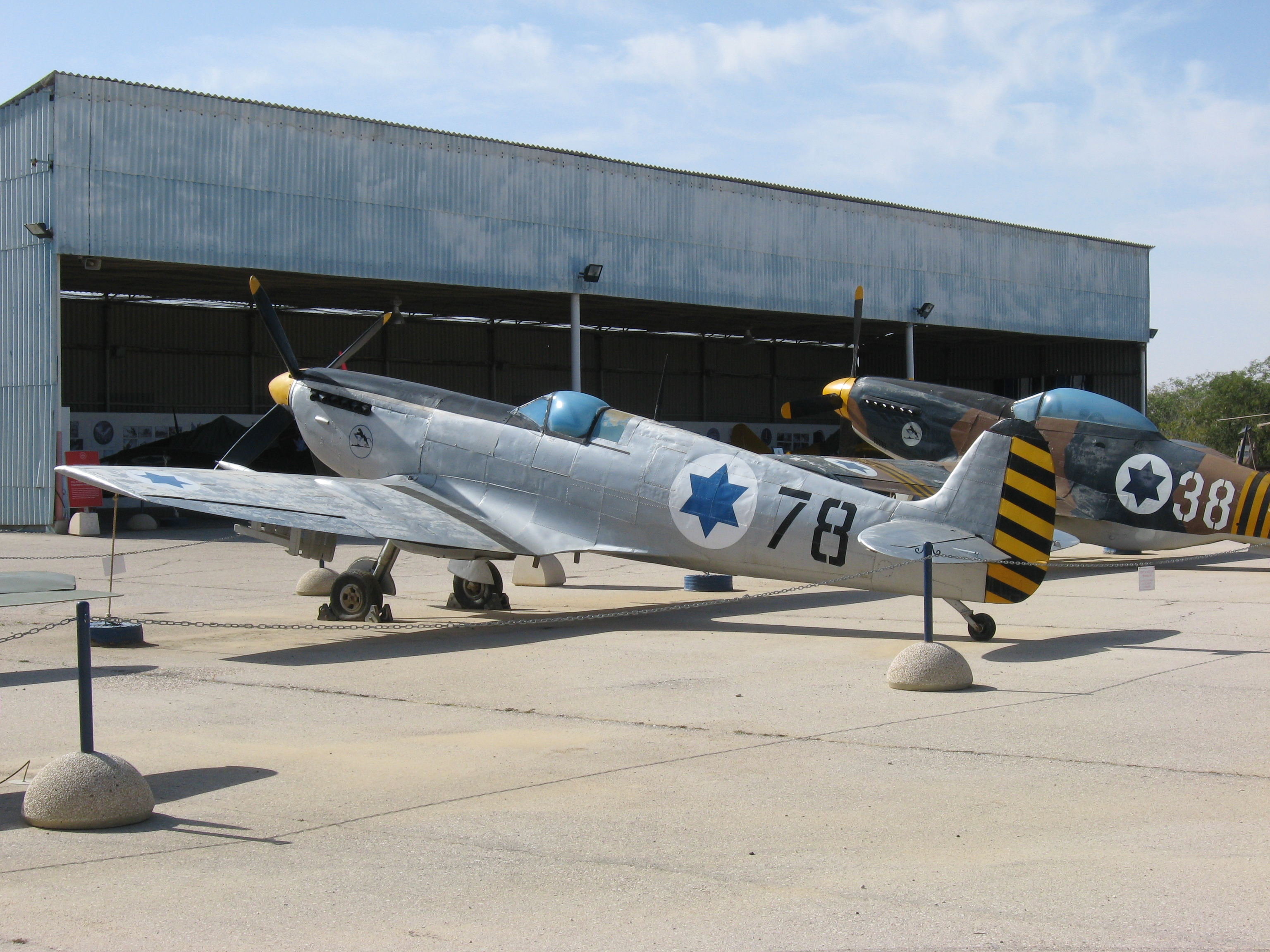 Supermarine Spitfire Mk.IXe EN145, former Israeli Air Force 20-78,at the Israeli Air Force museum in Hatzerim